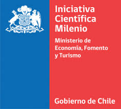 Logo of the Millennium Science Initiative operated by the Chilean, Ministry of Economics, Development, and Tourism